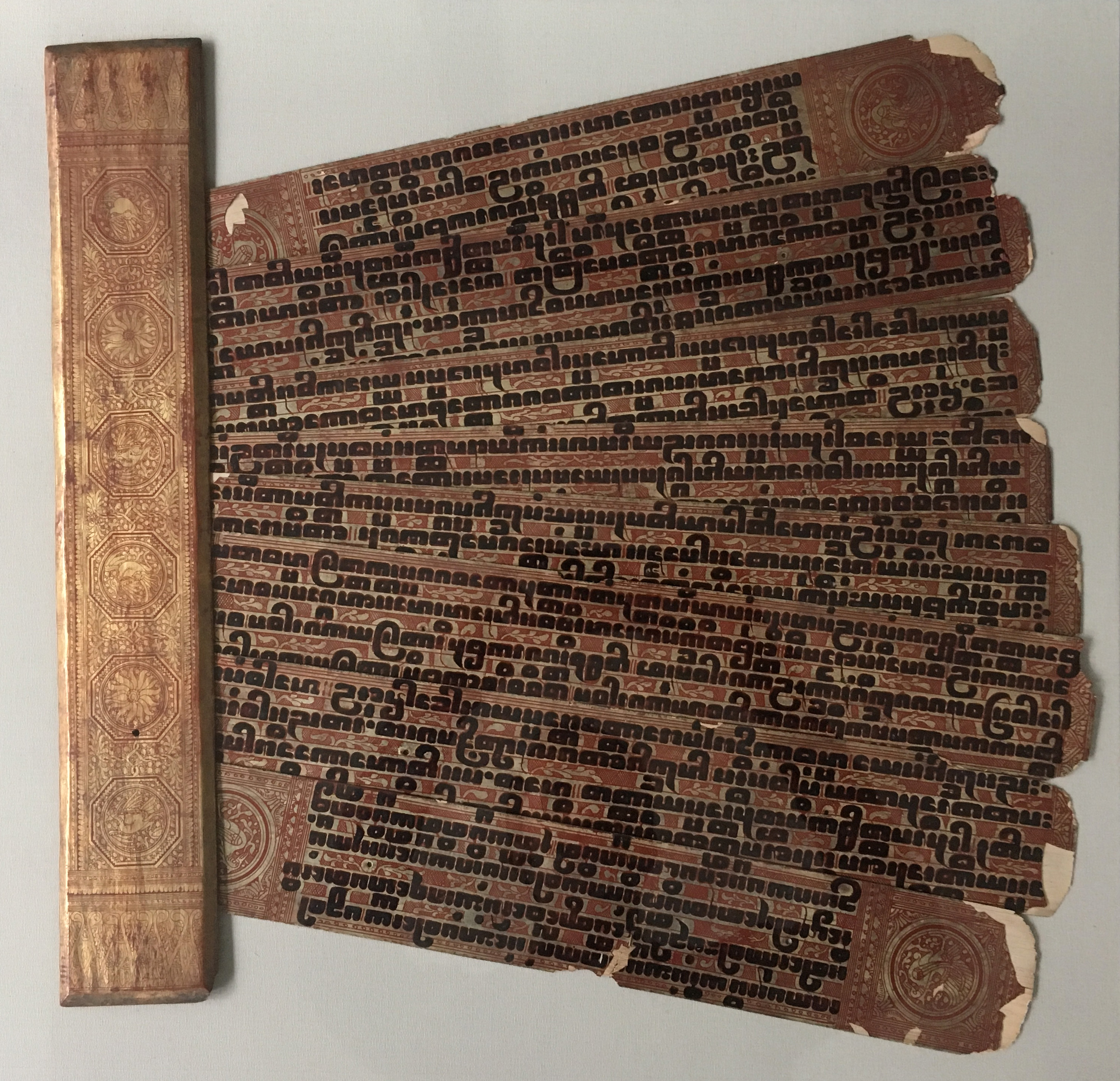 19th century Burmese Kammavācā (confession for Buddhist monks), written in Pali on gilded palm leaf. Housed at the San Diego Public Library.